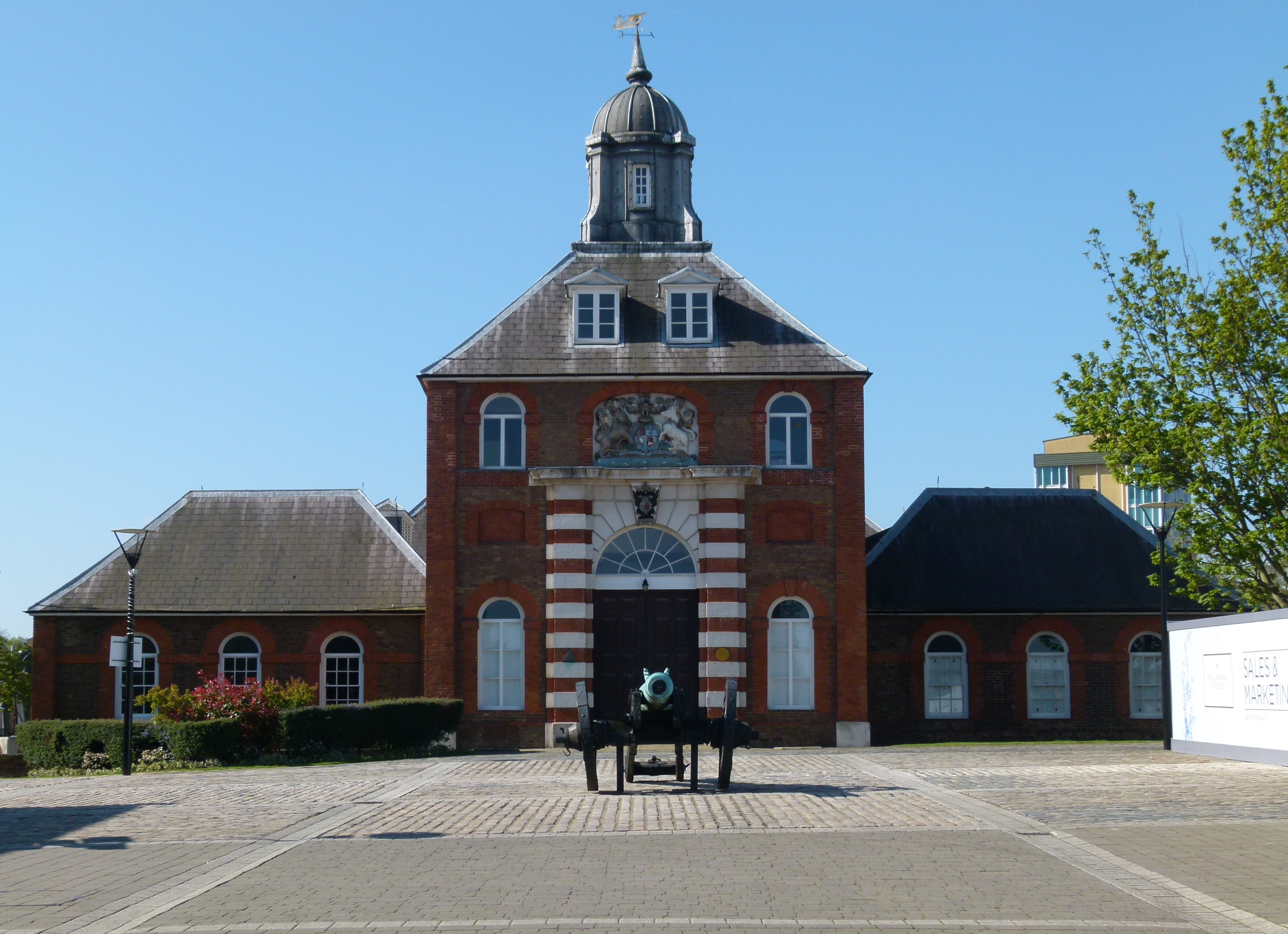 Woolwich, southeast London, UK. View from No 1 Street of the Royal Brass Foundry in the Royal Arsenal.